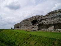 View taken in June 2005 of outer defensive works and one wall of Richborough Fort in Kent.